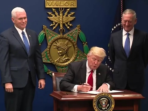 U.S. President Donald Trump signing the "Protecting the Nation from Foreign Terrorist Entry into the United States" order, flanked by Vice President Mike Pence (left) and Secretary of Defense James Mattis (right)